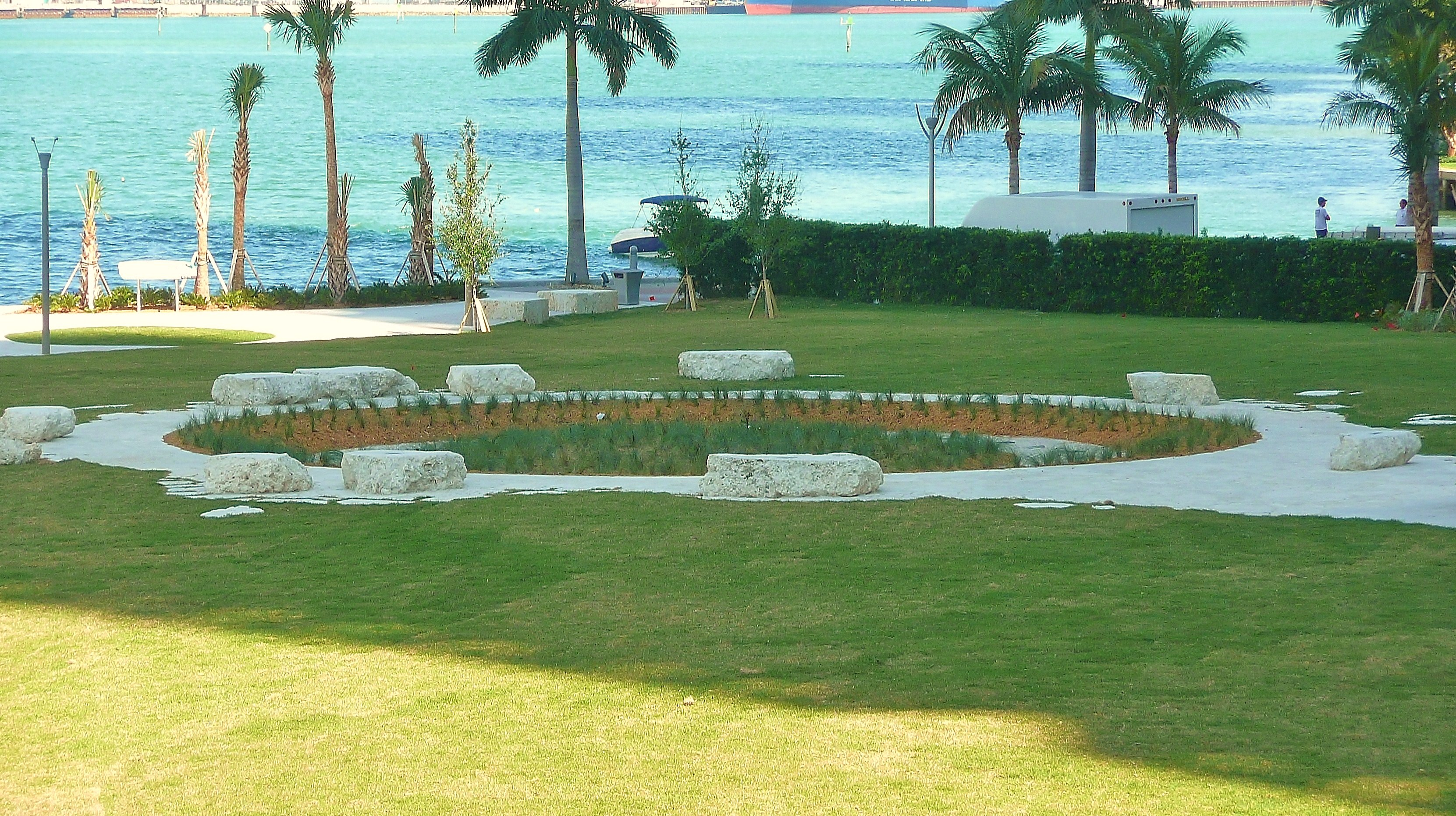 Digital photo taken by Marc Averette. The Miami Circle in Downtown Miami, Florida, United States.